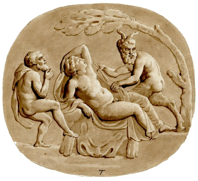 Drawing of a cameo with Hermaphroditus reclining on a rock, covered with a lion-skin, under a tree; Pan lifts Hermaphroditus's garment while Silenus looks on. Pen and ink and brown wash on a sheet of paper, which is stuck down onto a second sheet together with 2010,5006.651 and 652; the assemblage framed in a graphite border.